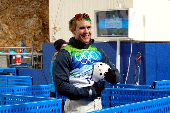 David Morris, Australian Aerial Skier, green and yellow hair with Olympic bib on, standing in Olympic Aerial Skiing venue